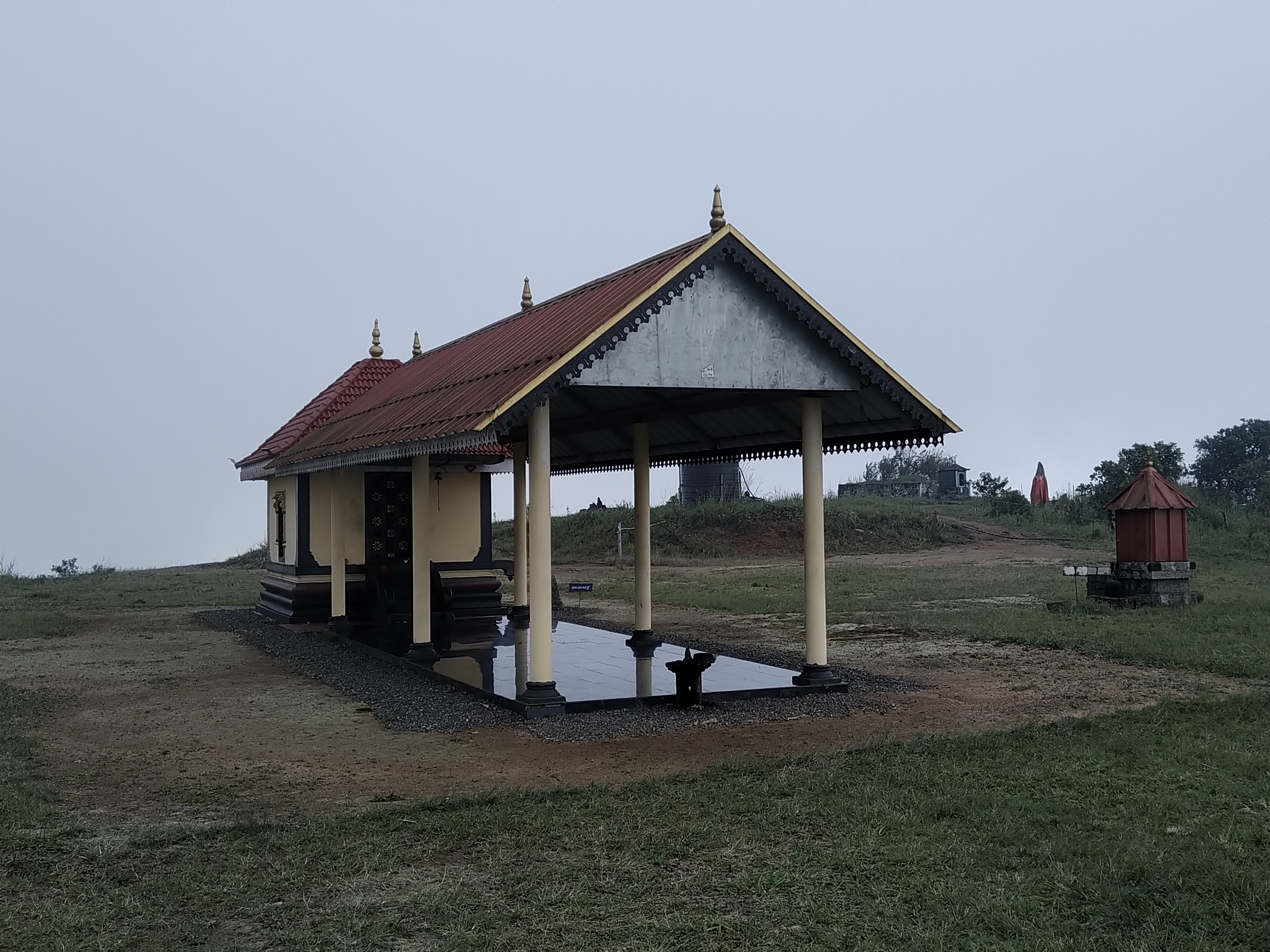 The small temple at Panchalimedu